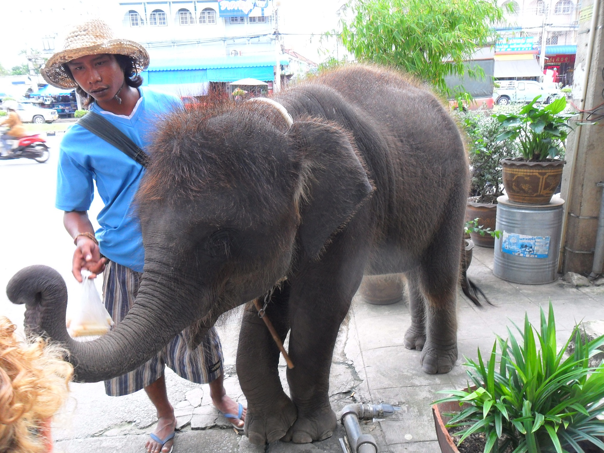 An elephant-baby to make money in the tourist industry, Thailand